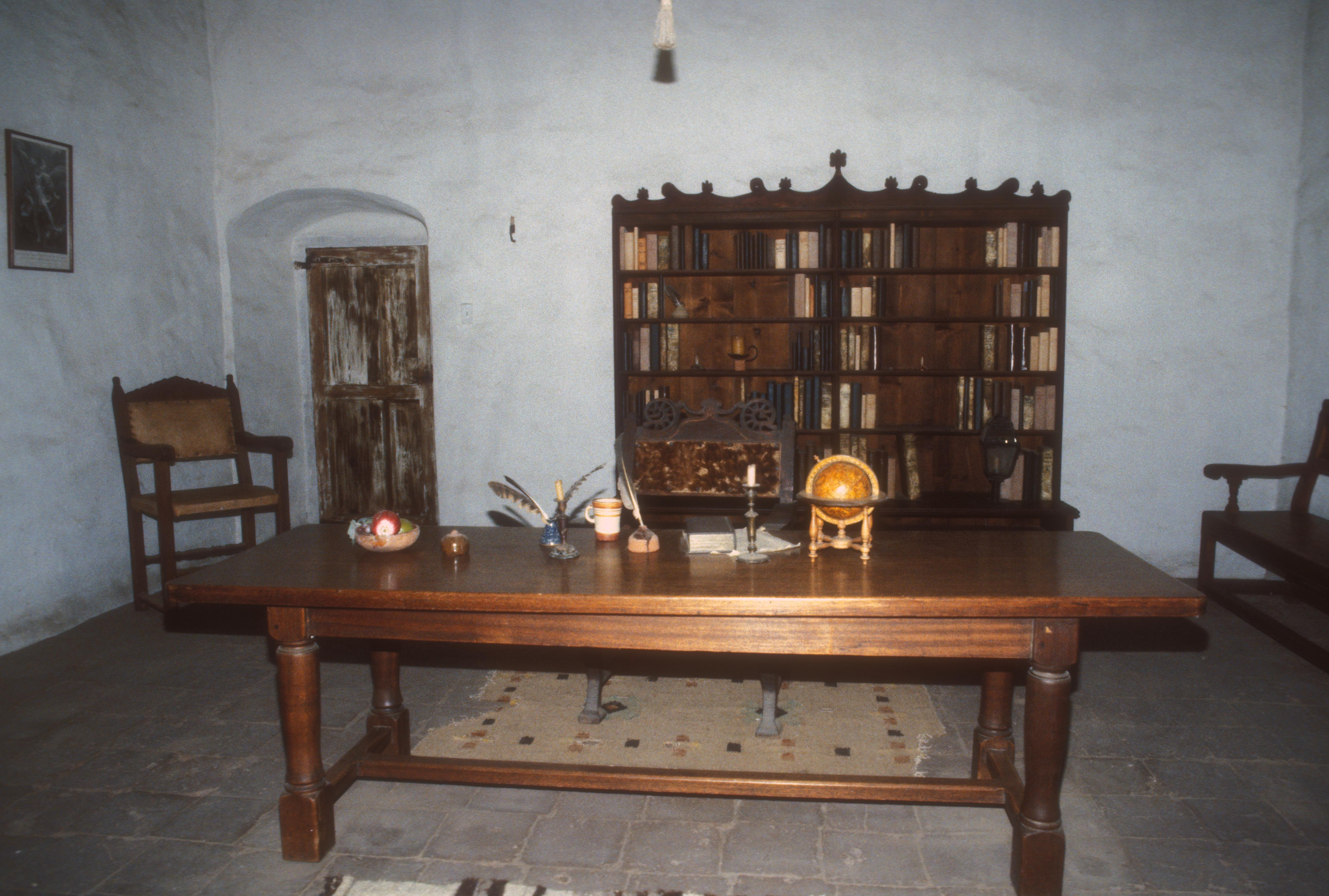 THIS IS THE LIBRARY IN THE LA PURISIMA MISSION STATE HISTORIC PARK. THIS IS THE MOST COMPLETE MISSION COMPLEX IN CALIFORNIA